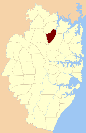 original location of the parish within Cumberland County, New South Wales (Sydney area)